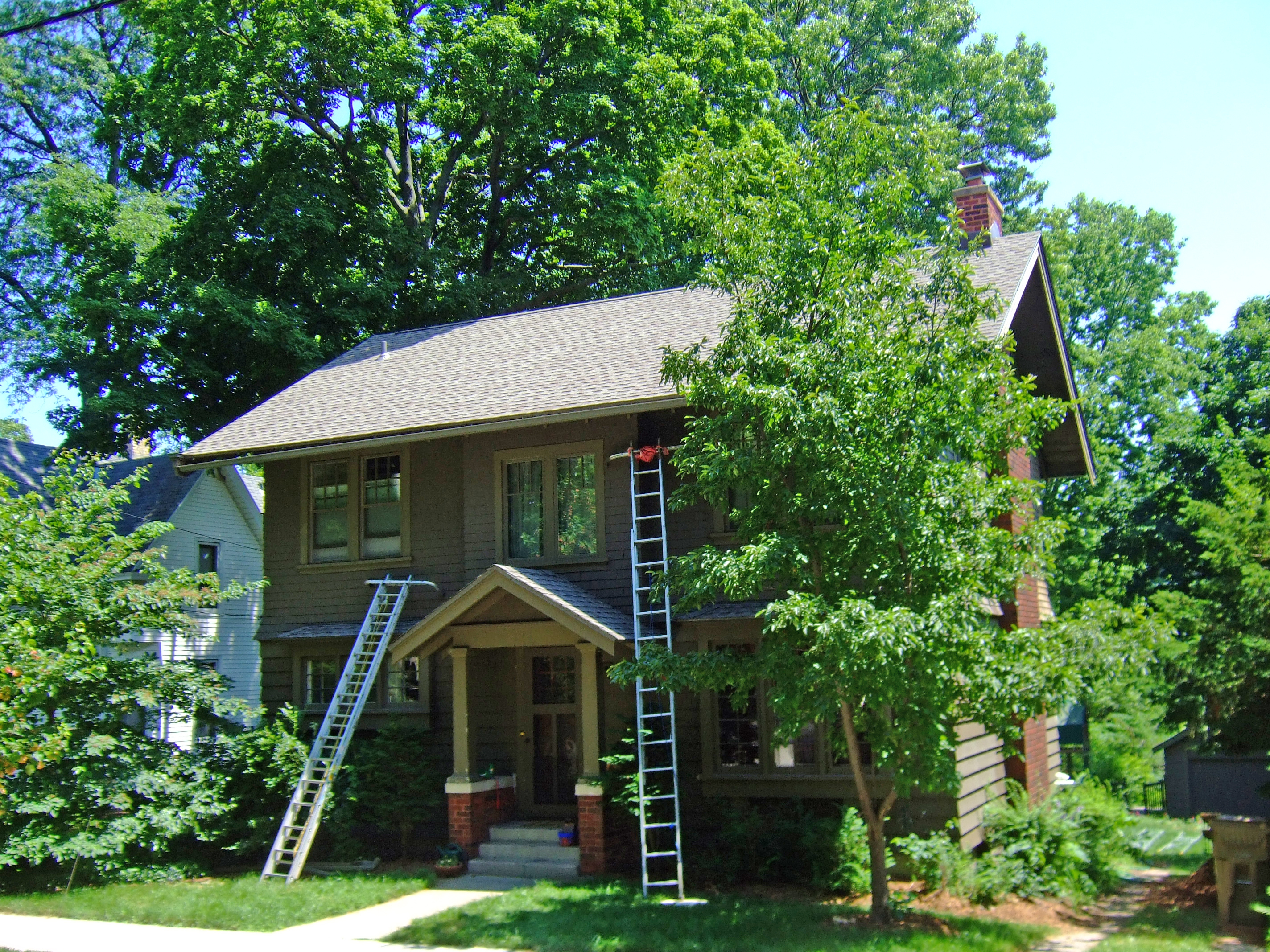 The William Ellery Leonard House at 2015 Adams Street in Madison, Wisconsin, was added to the National Register of Historic Places in 1993.